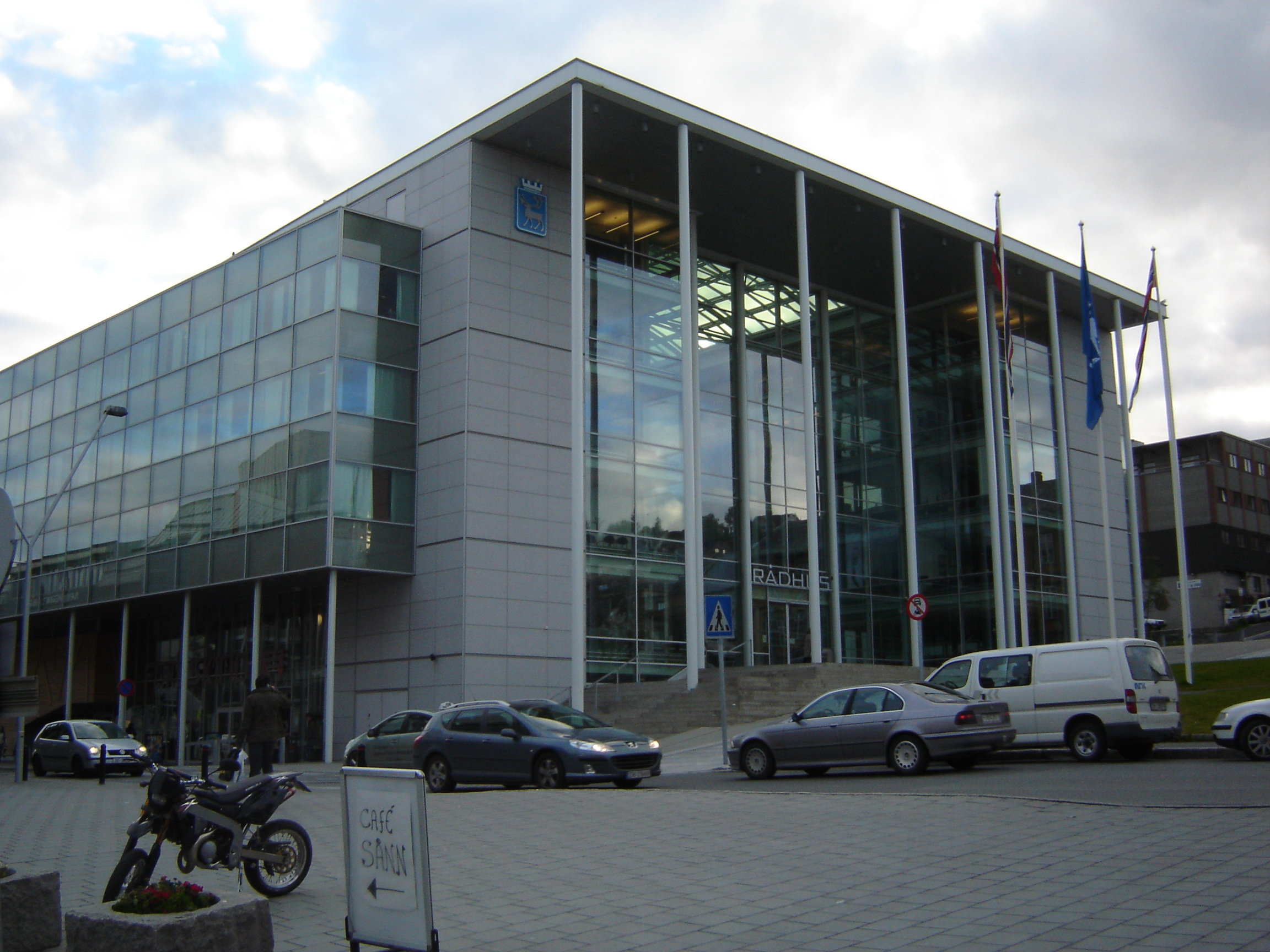 Town hall of Tromsø, Troms, Norway